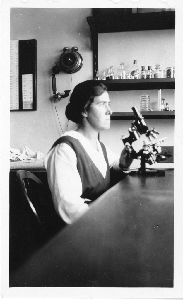 Wanda Margarite Kirkbride (1895-1983) was an American botanist known for her discovery of the mechanism by which cellulose is formed in the walls of plant cells.